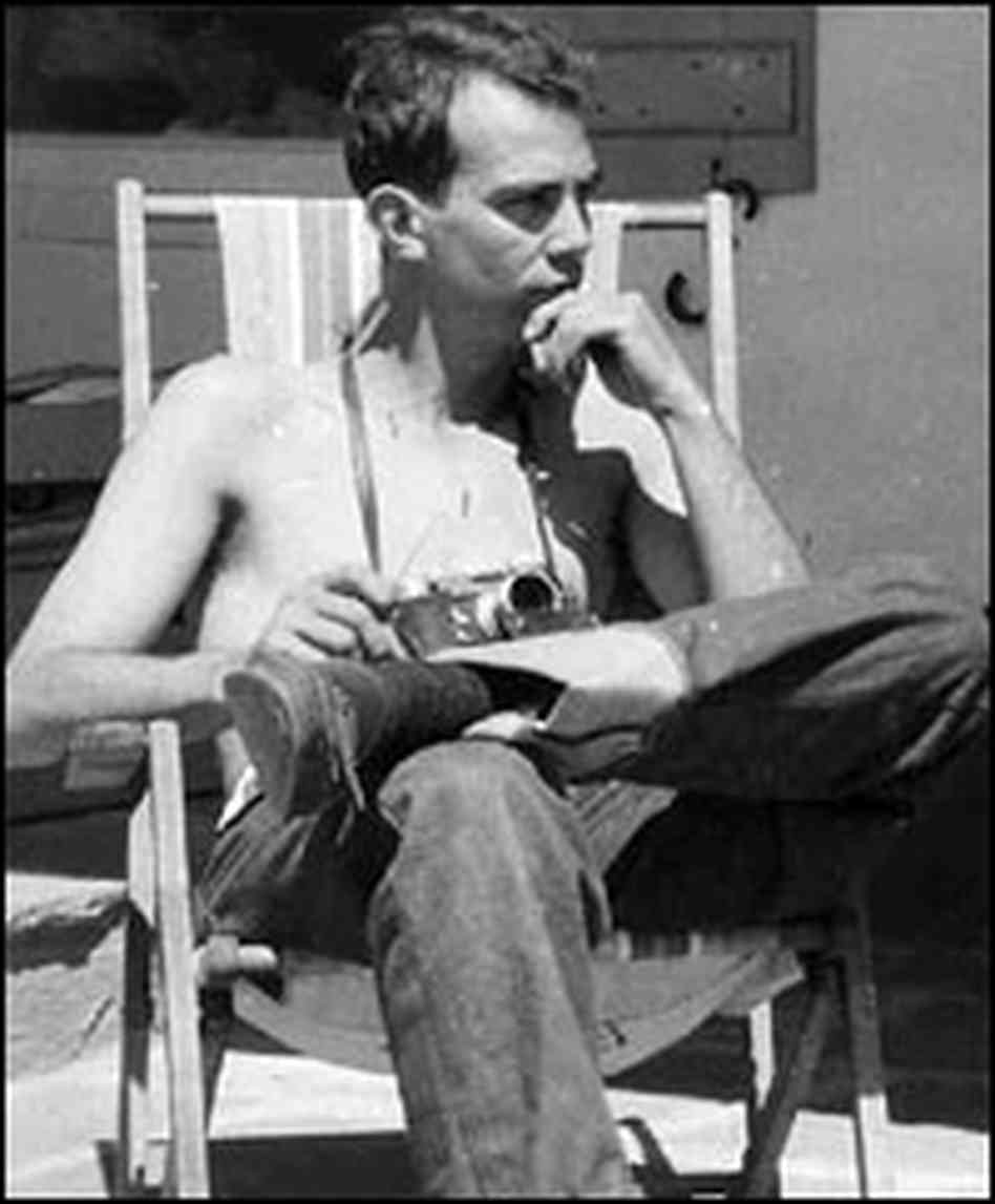 Jack Aeby in 1944 with the Perfex 33 camera used to take his picture of the Trinity Test.